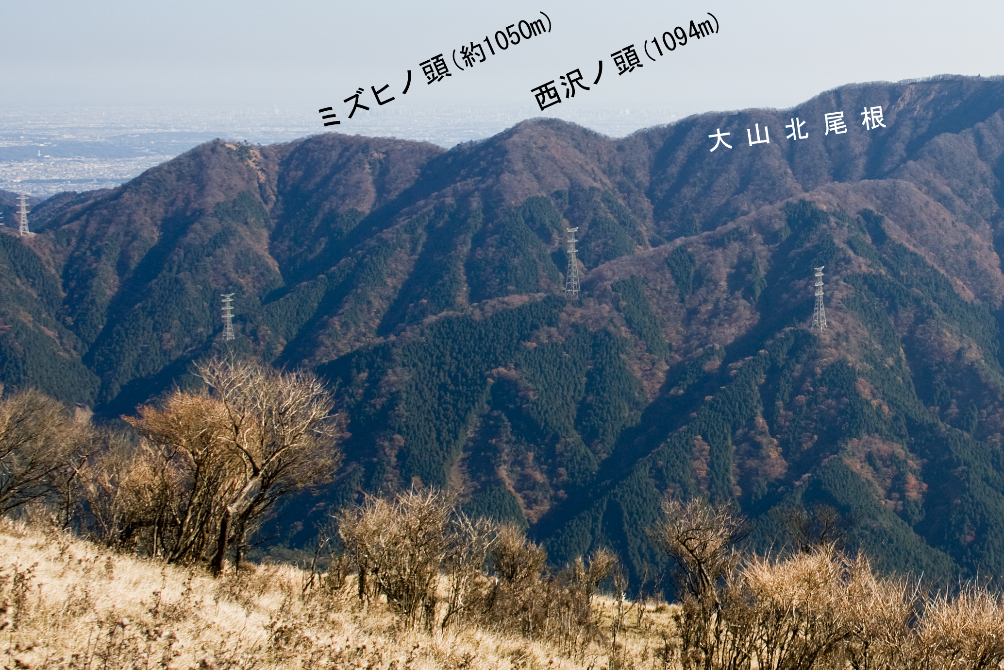 Mount Nishizawanoatama as seen from Mount Sannoto in Kanagawa Prefecture, Japan